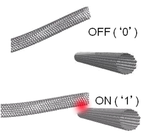 carbon nanotubes in and out of contact